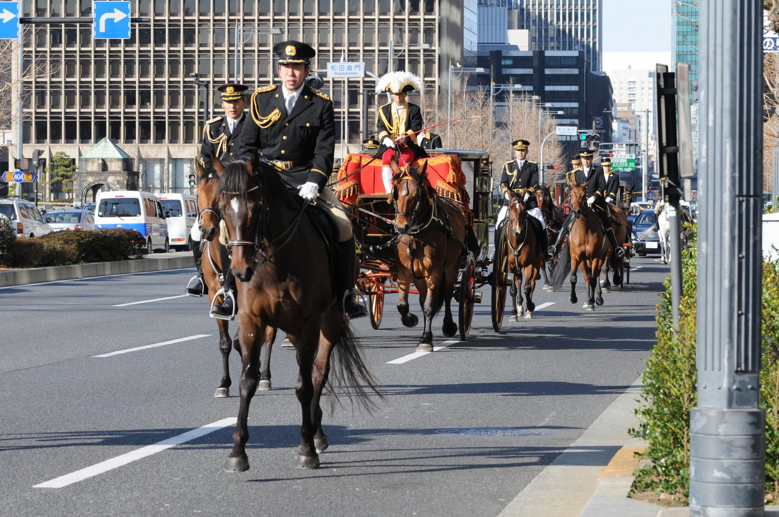 The carriage for the Ceremony of the Presentation of Credentials going through the Imperial Palace Plaza, Tokyo, Japan.